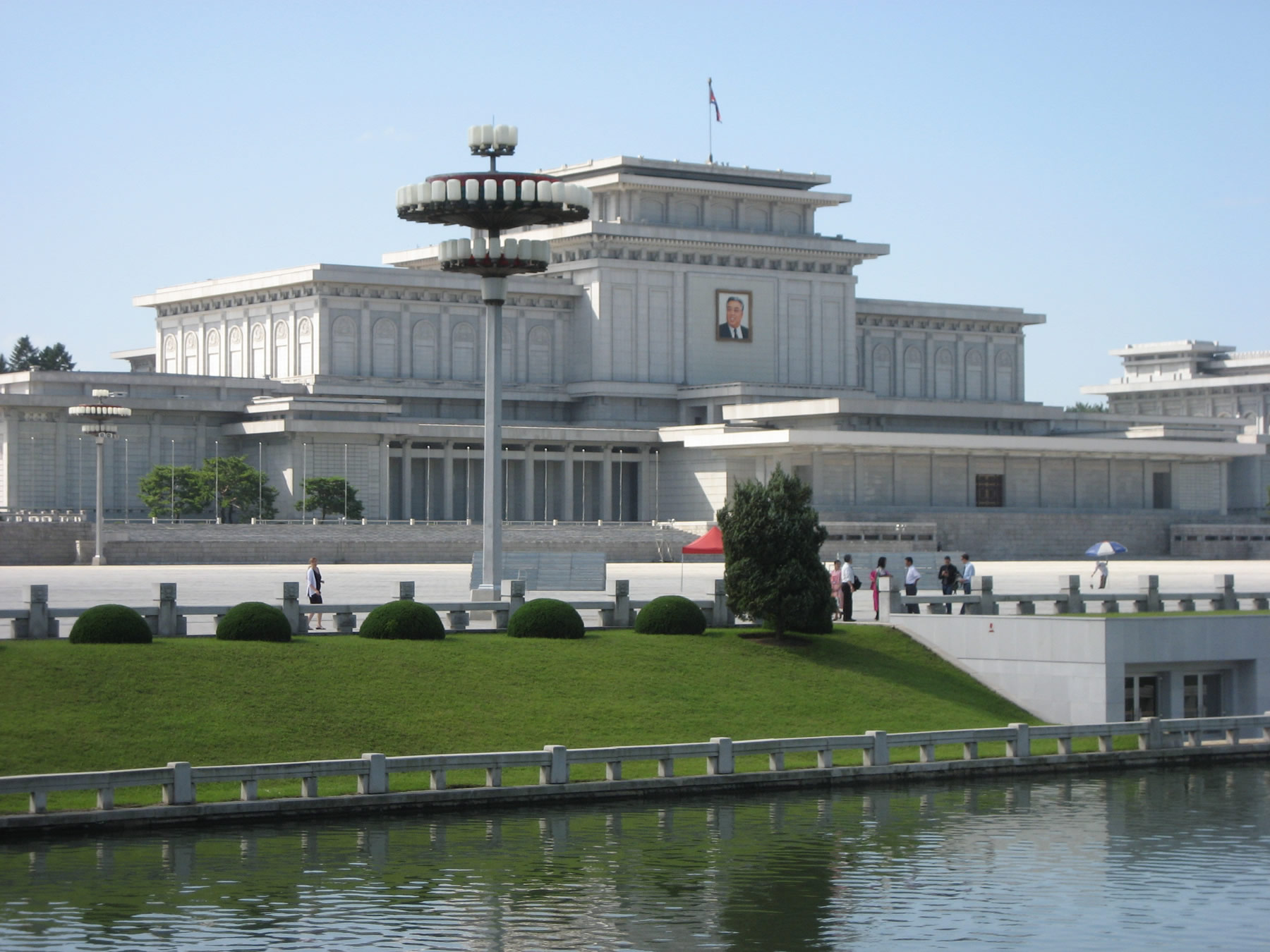 The Kumsusan Memorial Palace in Pyongyang is the final resting place of President Kim Il Sung, who passed away in 1994.